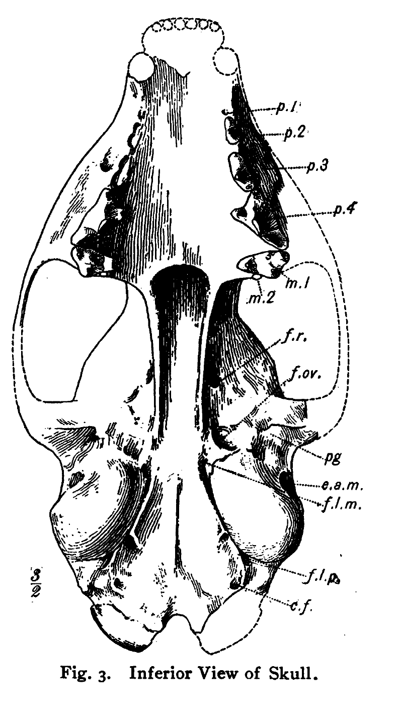 Inferior view of Bunaelurus (=Palaeogale) skull. Palaeogale is now considered Carnivora incertae sedis.